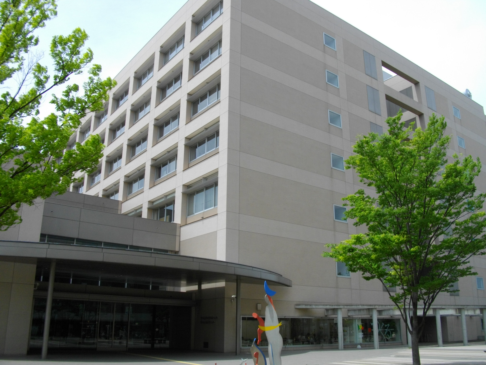 Saitama Industrial Technology Center